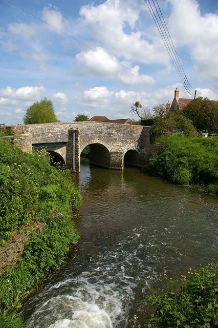 Total Bridge, Barton St David